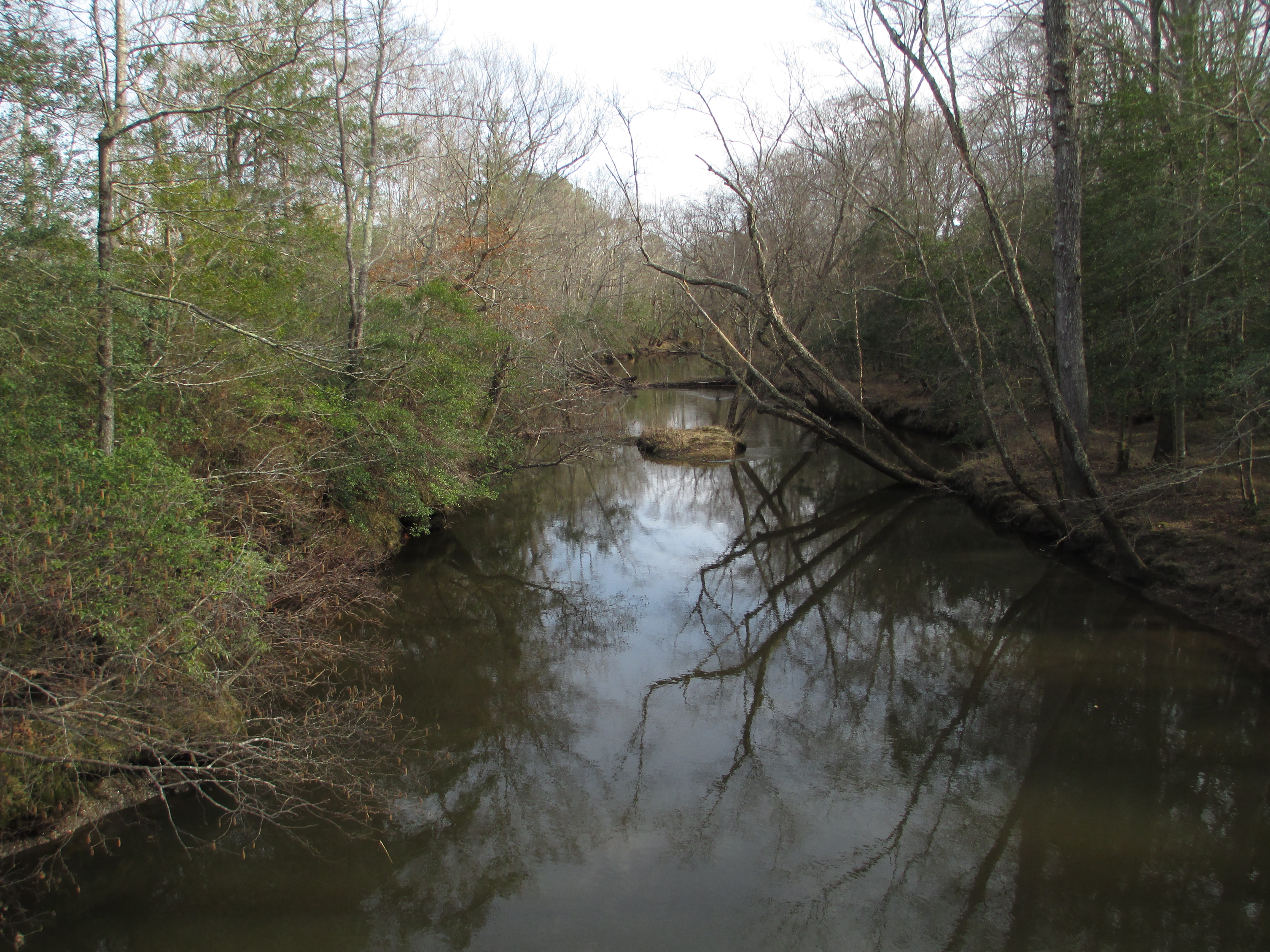 The Mattaponi River, upstream of its confluence with the South River, within Mattaponi Wildlife Management Area in Virginia, February 2017.